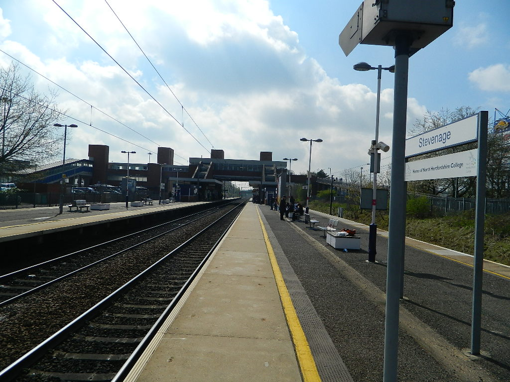 Stevenage Rail Station at Midday